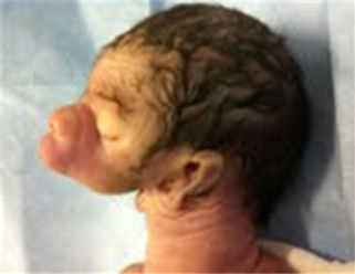 Male infant with otocephaly